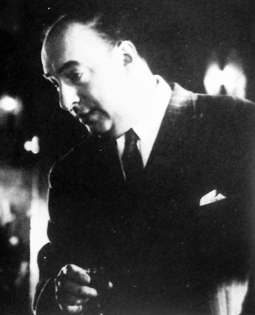 Pablo Neruda in China